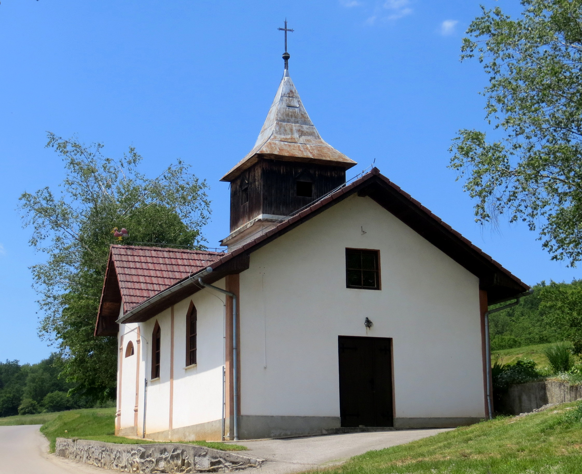 Chapel in Brezovi Dol, Municipality of Ivančna Gorica, Slovenia